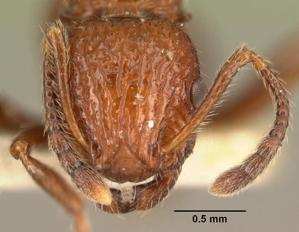 Head view of ant Poecilomyrma senirewae specimen casent0101901.